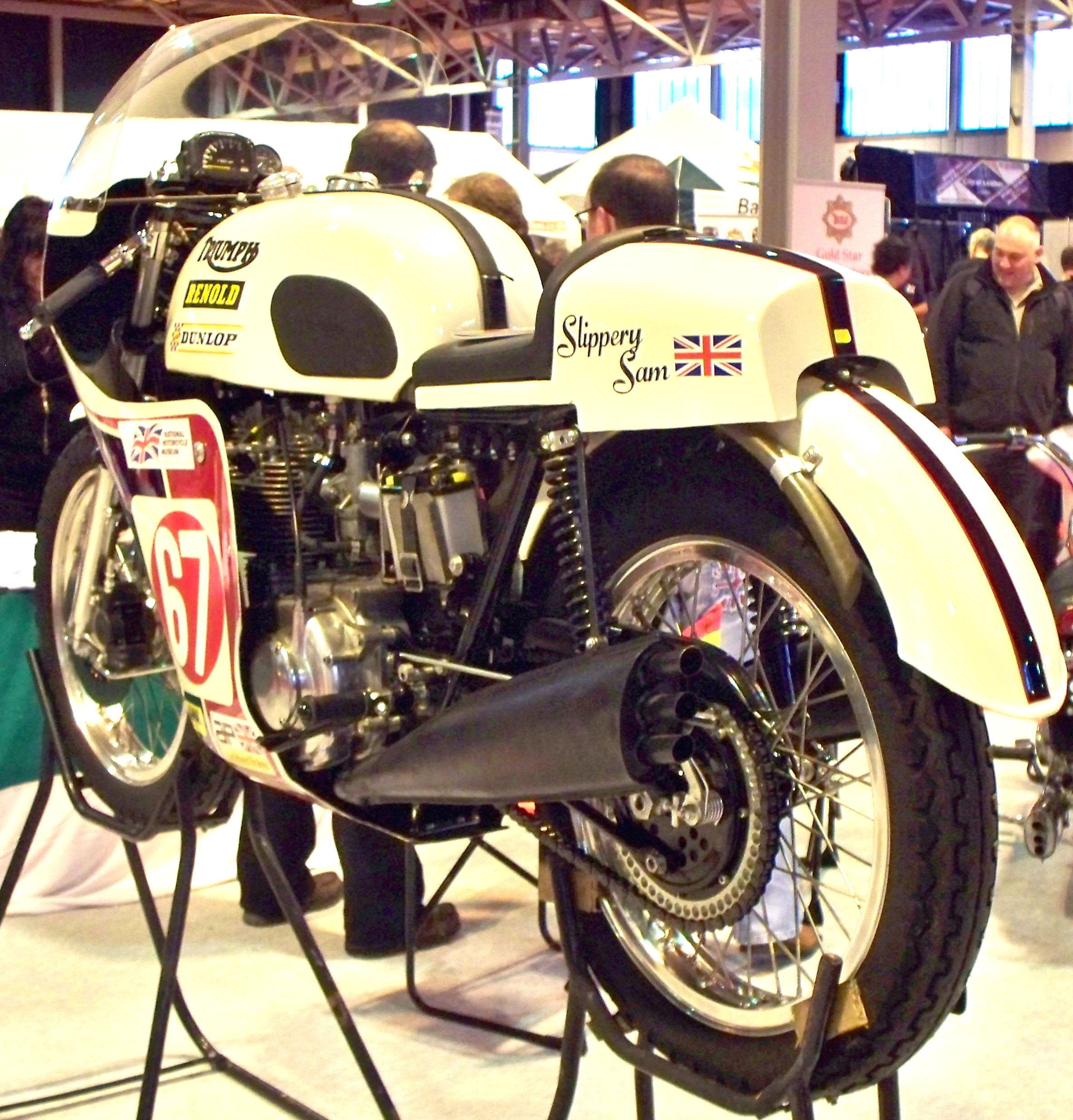 Slippery Sam, a road-based production-class race machine from the early 1970s prepared to a restricted formula, using selected adaptations only available from the factory as part-numbered inventory, seen as a static exhibit at the Classic Car and Bike Show in 2009